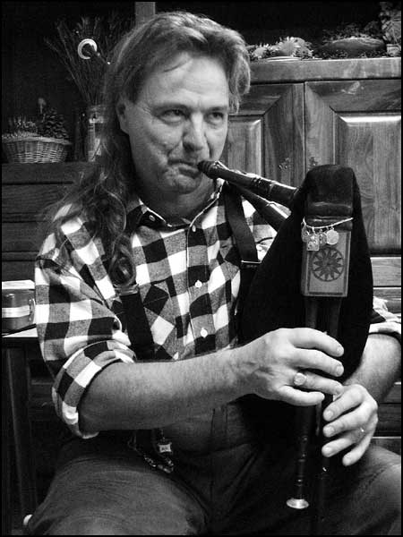 Robert Amyot plays Central French bagpipe, 16 inches (in G/C). Luthier: Joseph Béchonnet, ca. 1850. Materials: tinted plum wood, ivoiry, horn, bone. Modifications: Chanter by Jean-Sylvain Maître.